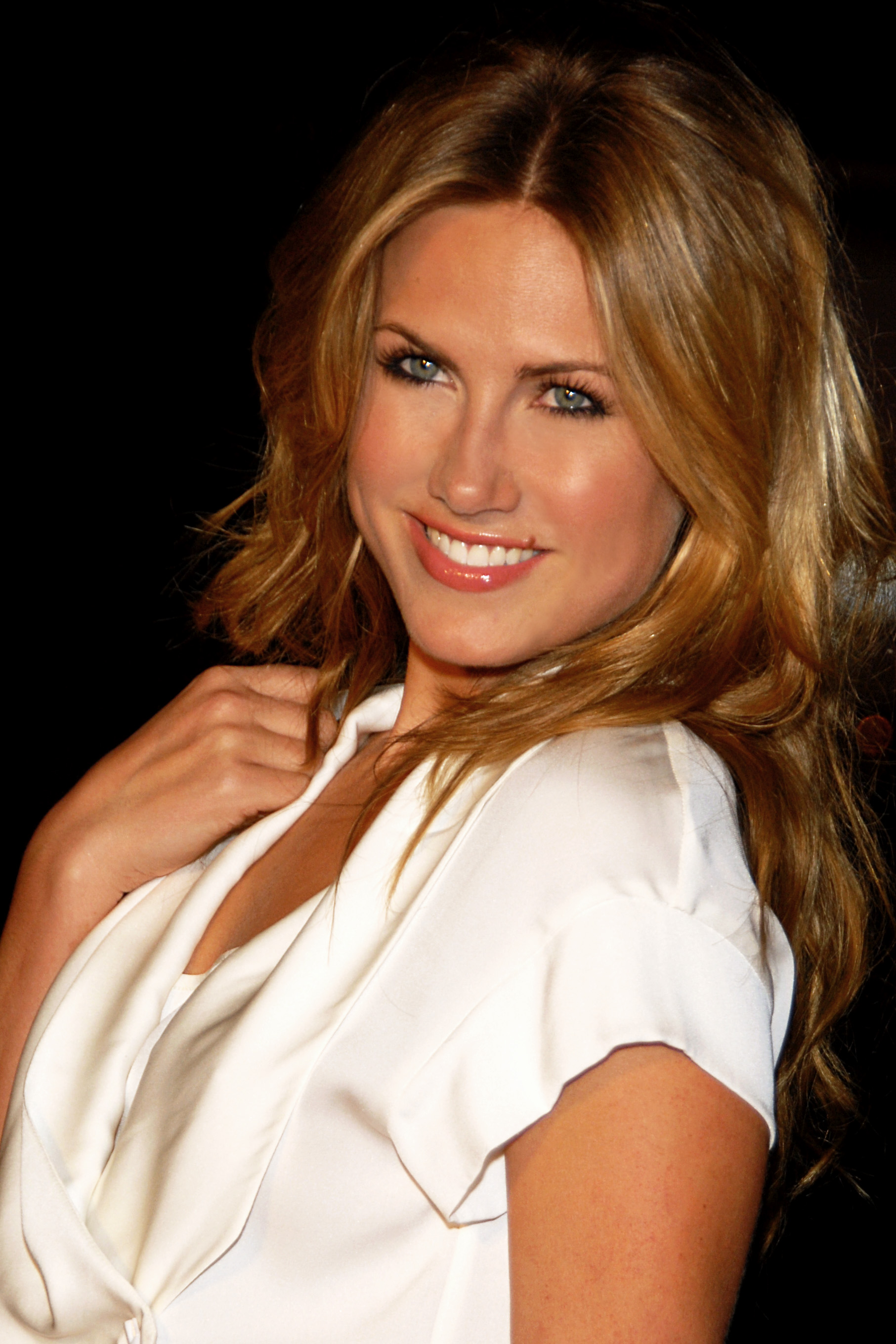 Vail Bloom attending Maxim Magazine's 10th Annual Hot 100 Celebration, Santa Monica, CA on May 13, 2009 - Photo by Glenn Francis of